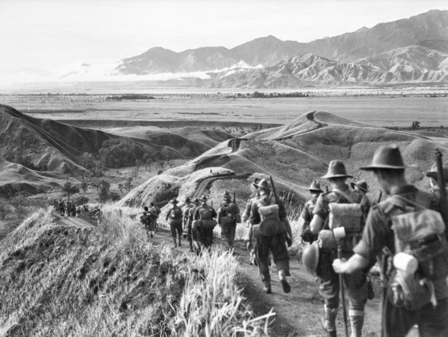 Soldiers from the Australian 21st Brigade move down from the Finisterre Range into the Ramu Valley in November 1943